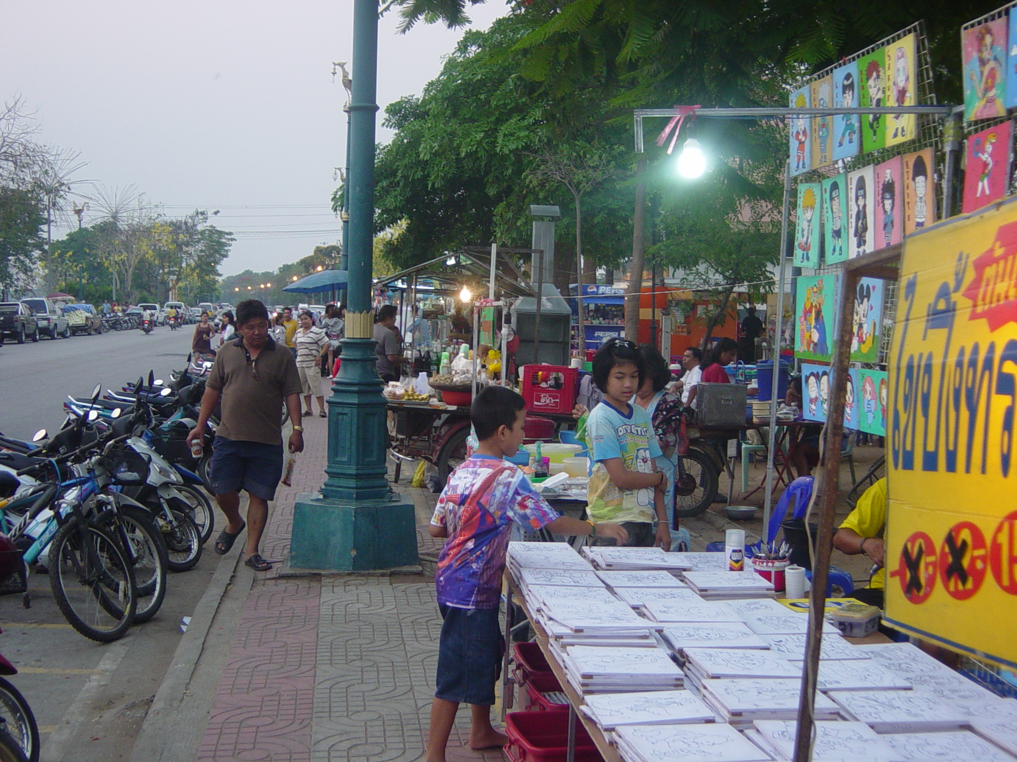 Night Bazaar in Tak, Thailand opens at dusk